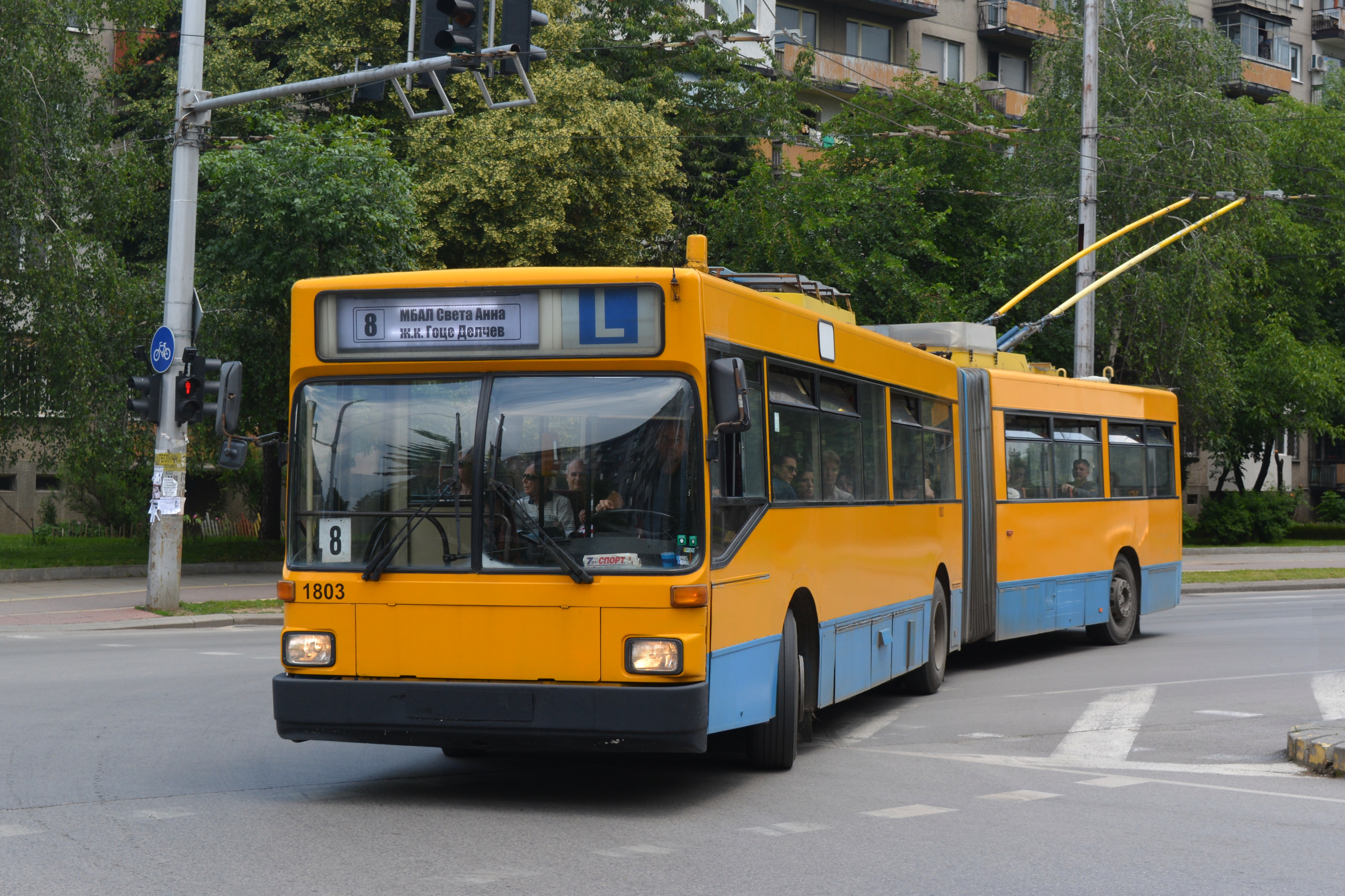 Gräf & Stift GE 152 M18 trolleybus in Sofia on line 8